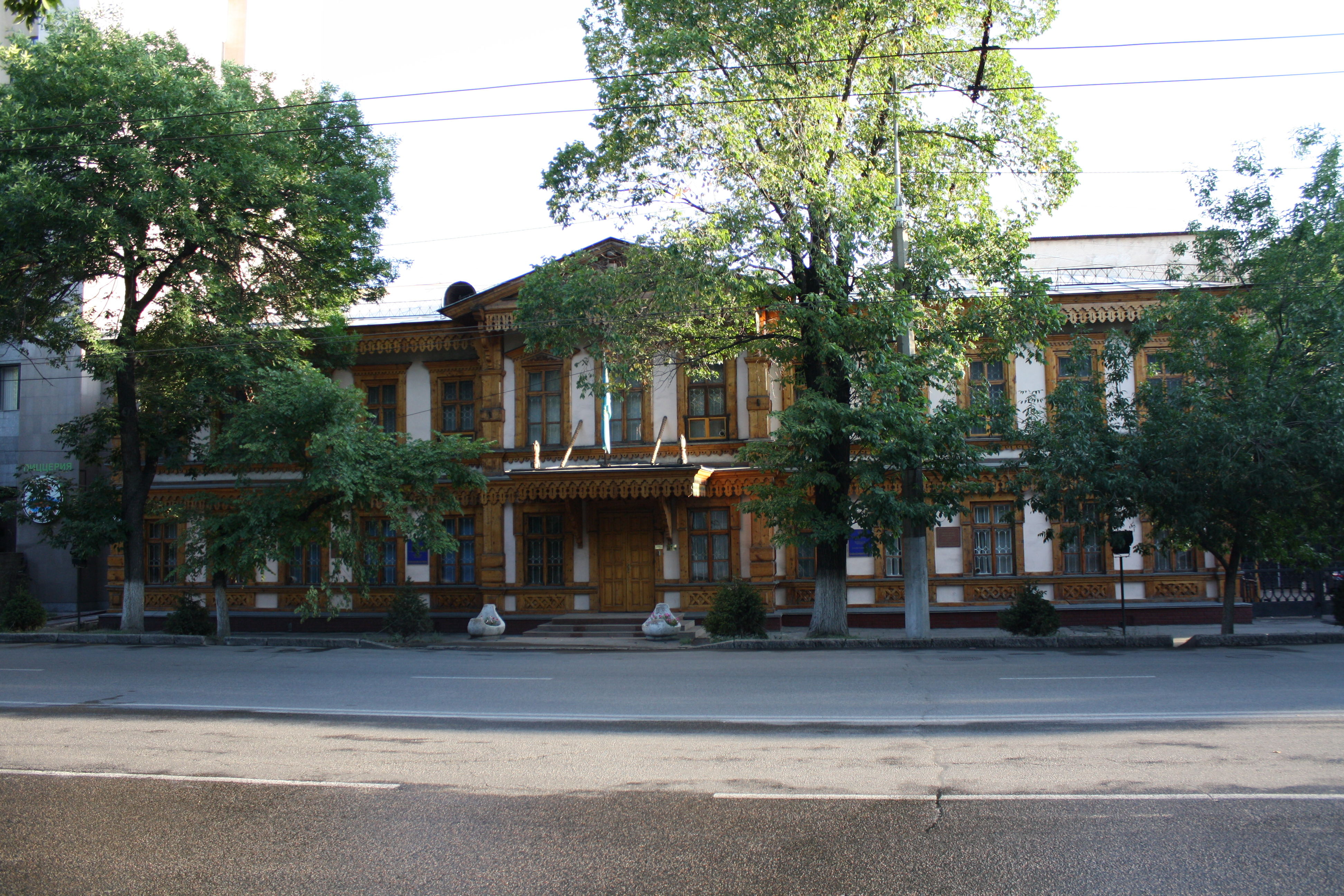 Almaty, Kazakhstan. The representative office of the Cilture Ministry of Kazakhstan. Built in 1890.